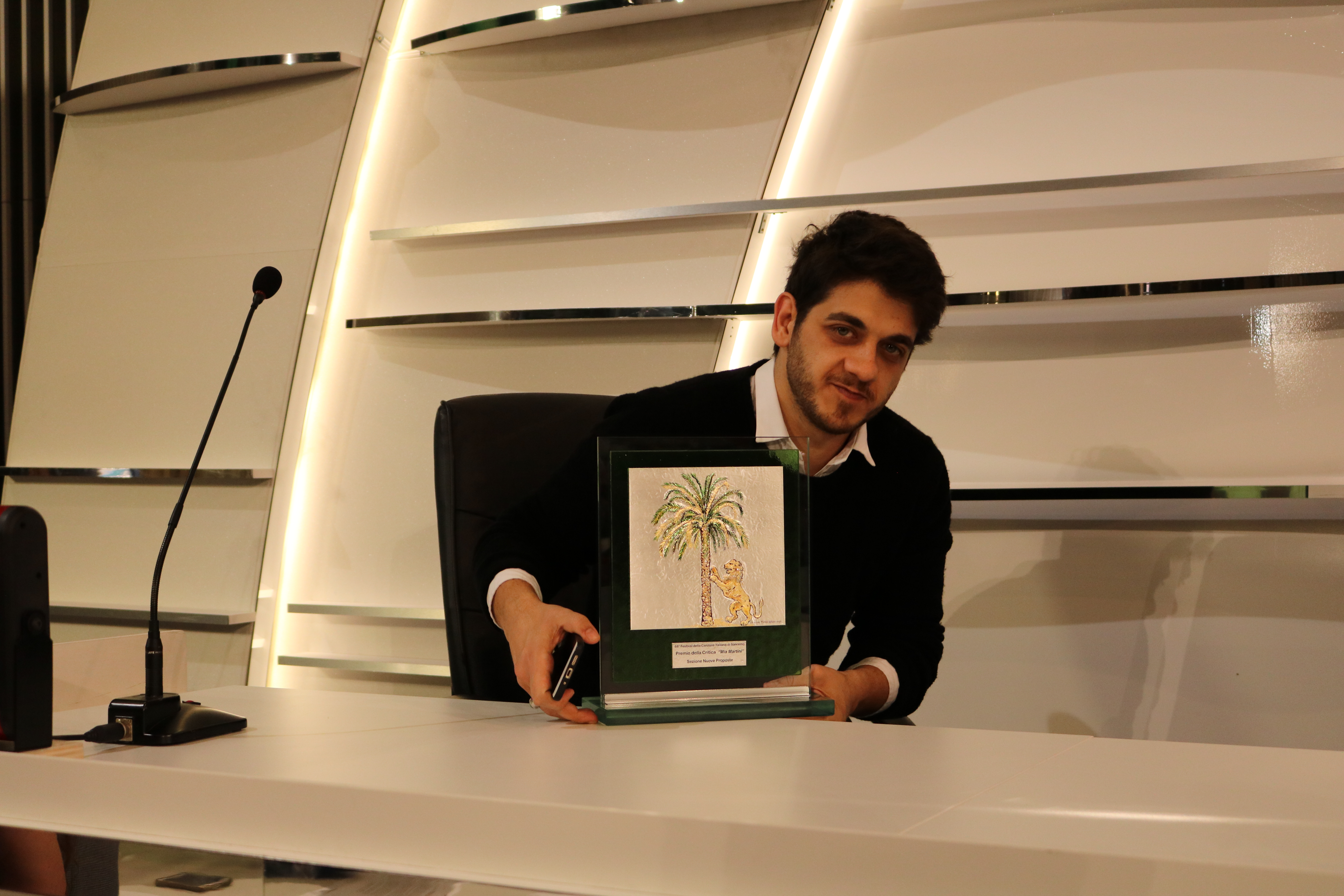 Mirkoeilcane